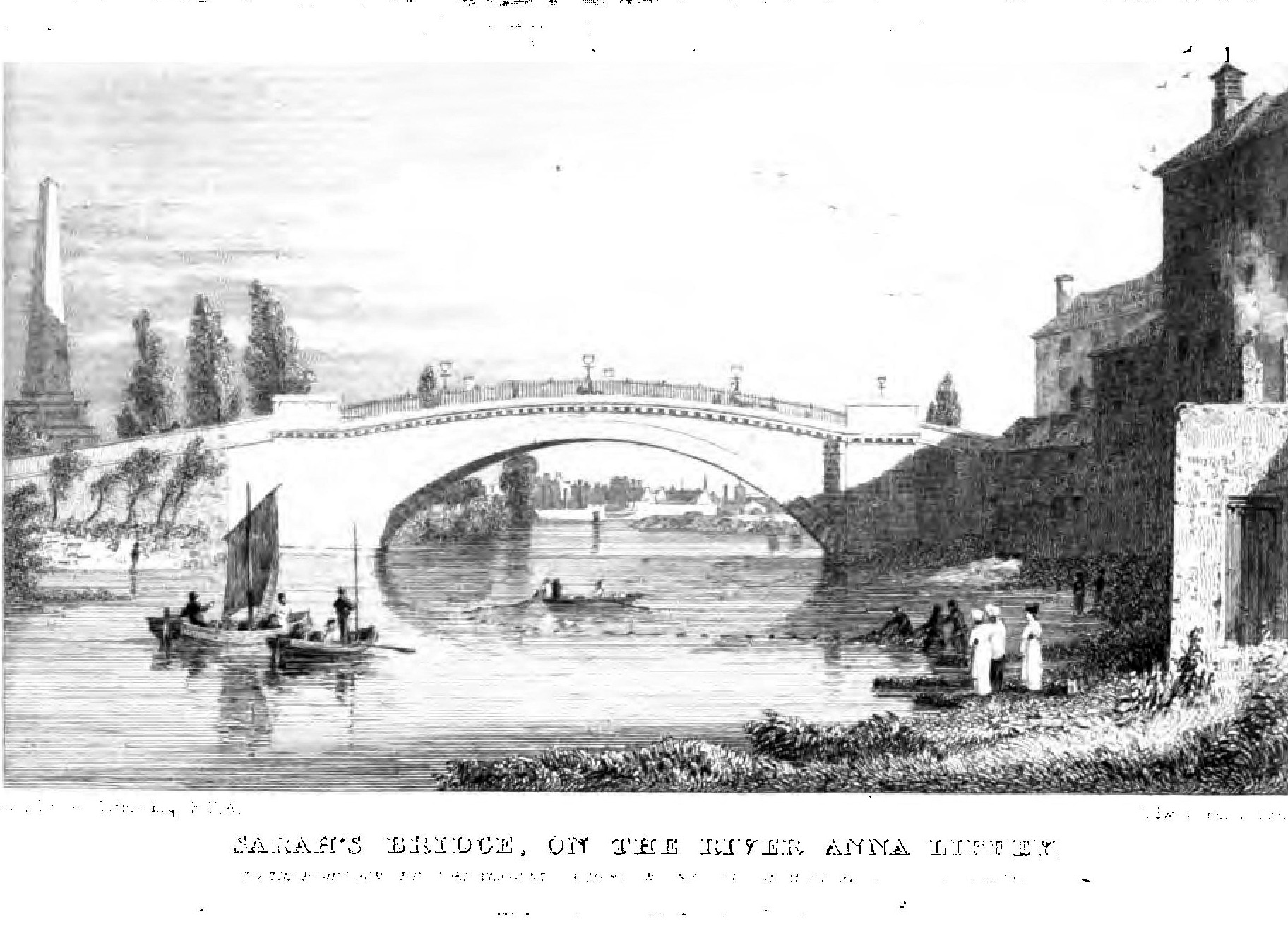 Engraving from "Ireland Illustrated: From Original Drawings" by George Newenham Wright. Published 1831 by H. Fisher, son, and Jackson. OCLC: 788633